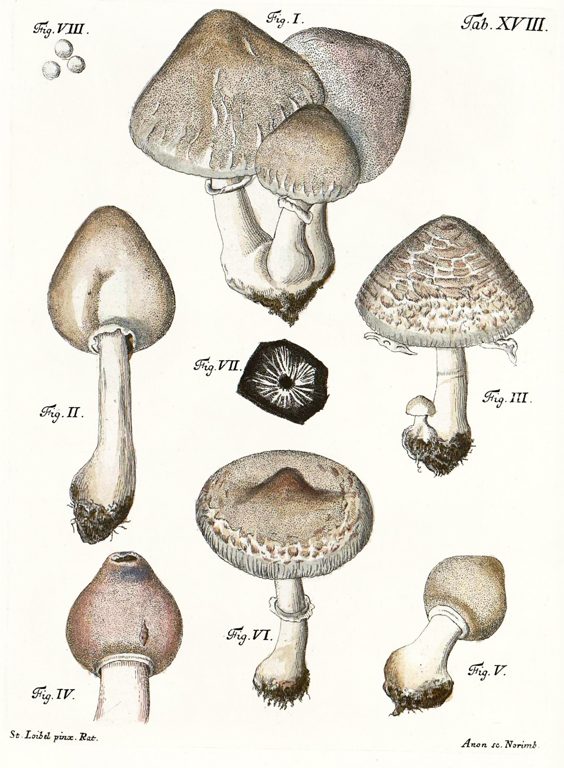 Explanation of the 2nd plate by the author J.C. Schäffer (in German und Latin) The plate shows Agaricus excoriatus Schaeff., Fungorum qui in Bavaria et Palatinatu circa Ratisbonam nascuntur icones, Vol 4: Seite 10 (1774). According to the right scientific name is now Macrolepiota excoriata (Schaeff.) Wasser